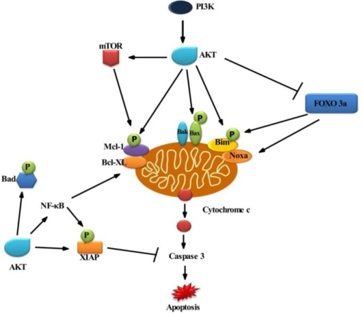 This file, which was originally posted to was reviewed on 26 August 2018 by the administrator or reviewer Leoboudv, who confirmed that it was available there under the stated license on that date. Scheme of PI3KAKT mediated antiapoptotic regulations at the mitochondria